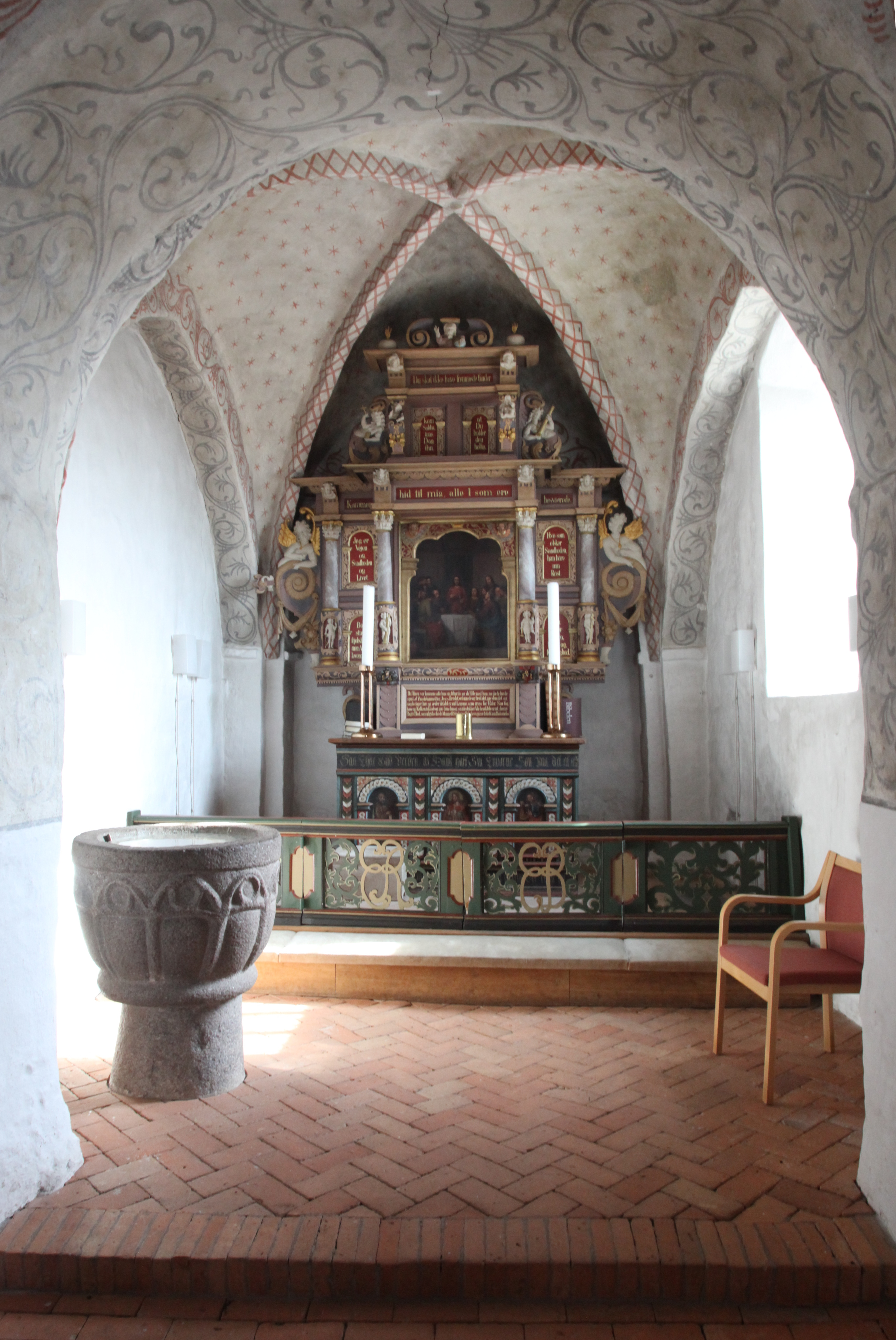 Tuse church in Denmark